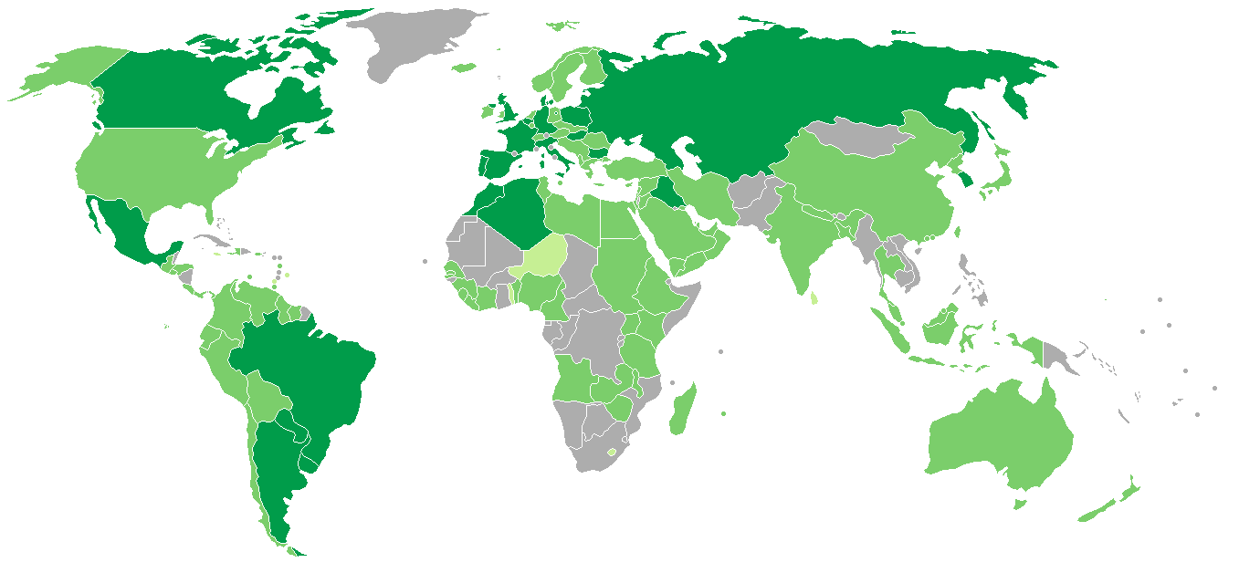 Qualification for the 1986 FIFA World Cup Country didn't participate Country withdrawed or entry didn't accepted by FIFA Country participated in the qualification tournament Country qualified to the finals